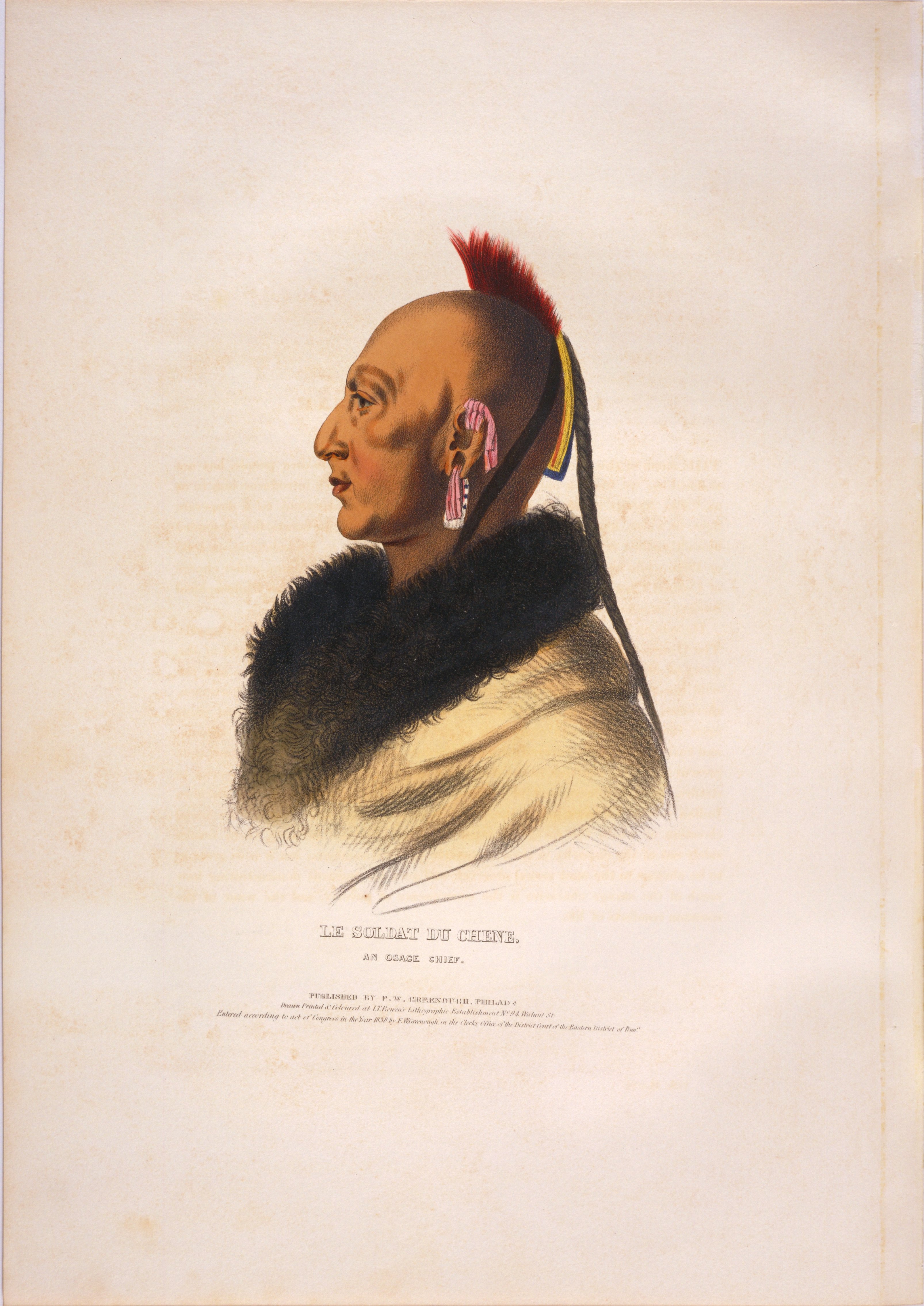 Le Soldat du Chene, an Osage chief. McKenney, Thomas Loraine, 1785-1859 & Hall, James, 1793-1868. History of the Indian Tribes of North America, with Biographical Sketches and Anecdotes of the Principal Chief. Embellished with One Hundred and Twenty Portraits, from the Indian Gallery in the Department of War, at Washington. Philadelphia: F.W. Greenough, 1838-1844.